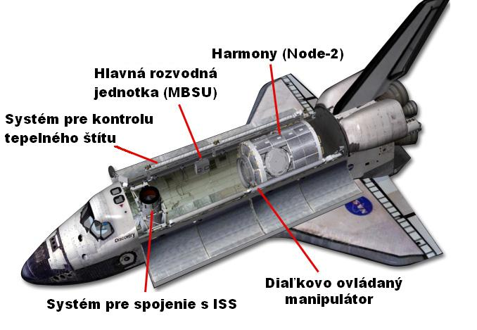 Configuration of Discovery payload bay (STS-120)